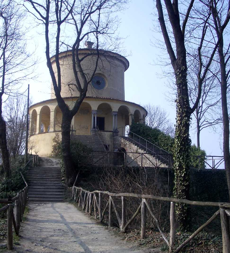 The Sacro Monte of Serralunga di Crea (Piedmont, Italy) Image of the so called "Paradise Chapel"